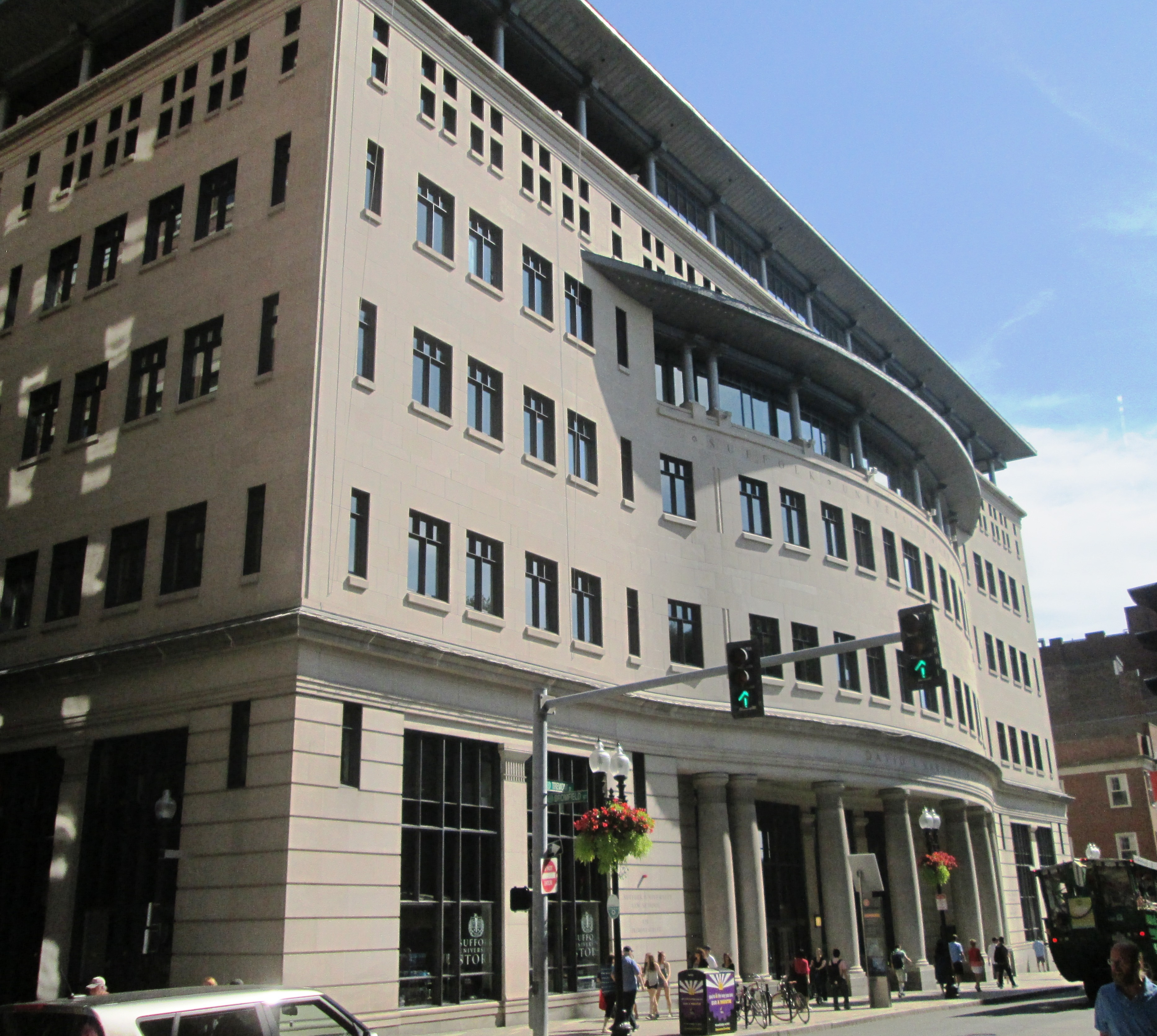 David J. Sargent Hall of Suffolk University Law School, located at 120 Tremont Street at the corner of Hamilton Place, across from the Granary Burying Ground in Downtown Boston, Massachusetts, was completed in 1999 and was designed by Tsoi/Kobus Associates. (Source: Suffolk University website)